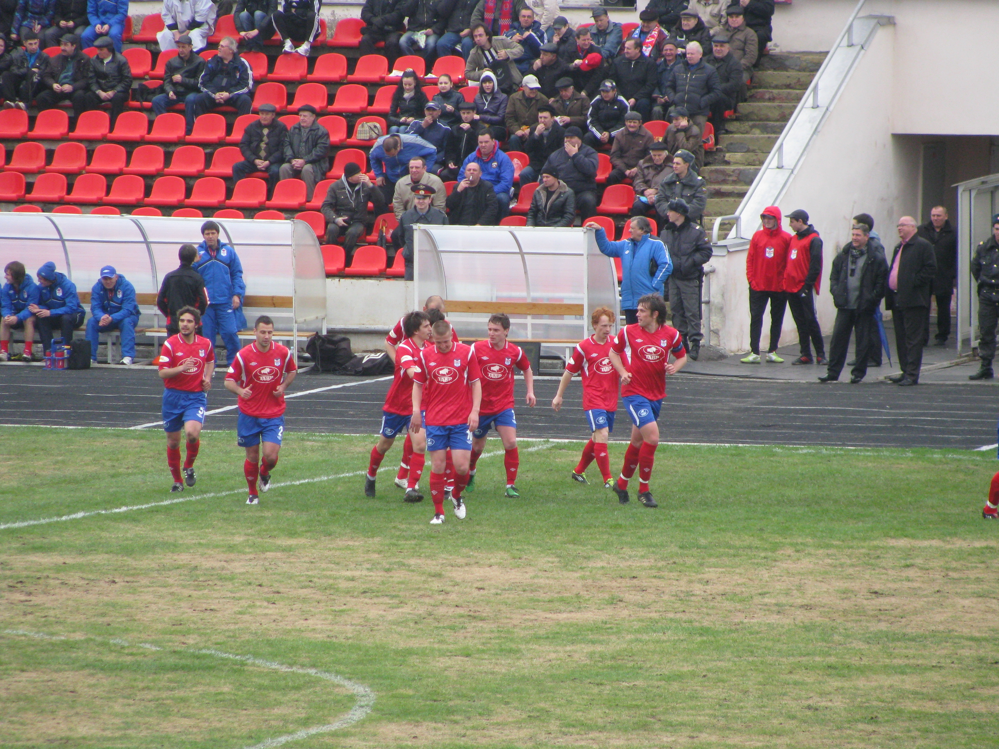 Players of FC SKA Rostov-on-Don after they scored a goal. April 17, 2011. FC SKA vs. FC MITOS - 1:0